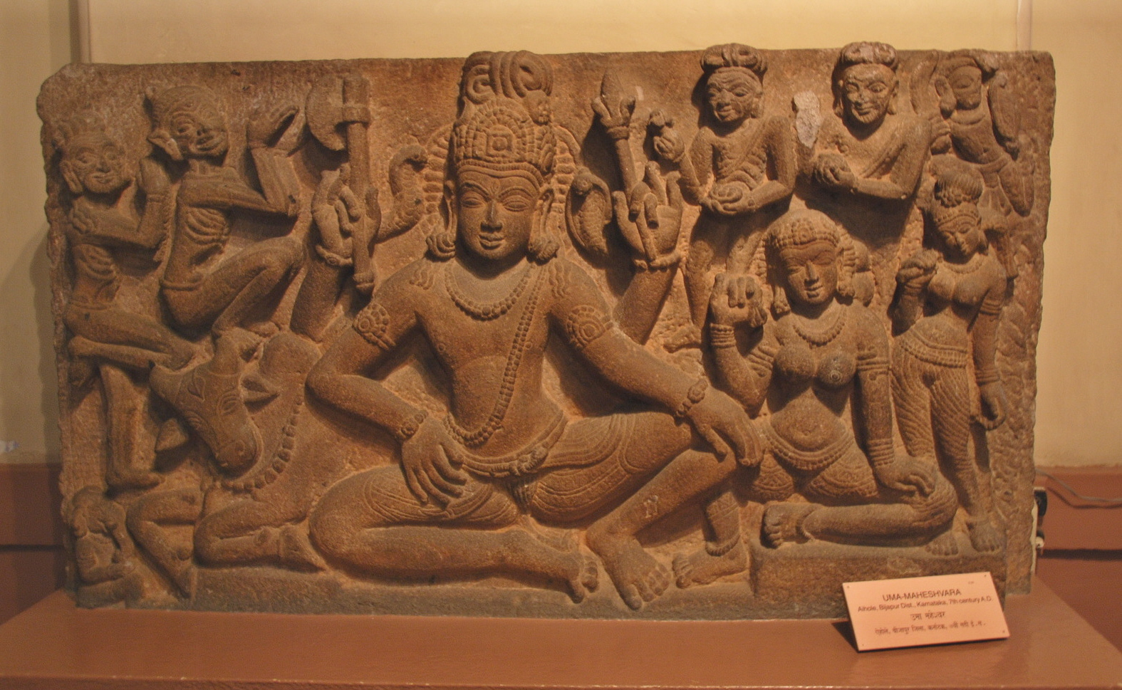 Uma Maheshvara, Prince of Wales Museum ground floor gallery, Aihole, 7th century